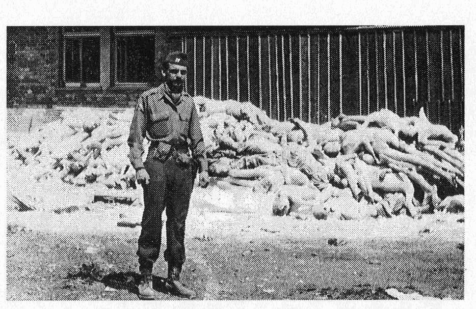 This picture shows me, Capt. Alfred de Grazia, in front of a pile of dead bodies at Dachau concentration camp in Bavaria Germany, two (maybe three) days after the liberation of the camp by the American army. I was then Commanding Officer of the Psychological Warfare Combat Propaganda Team attached to HQ, the Seventh Army.